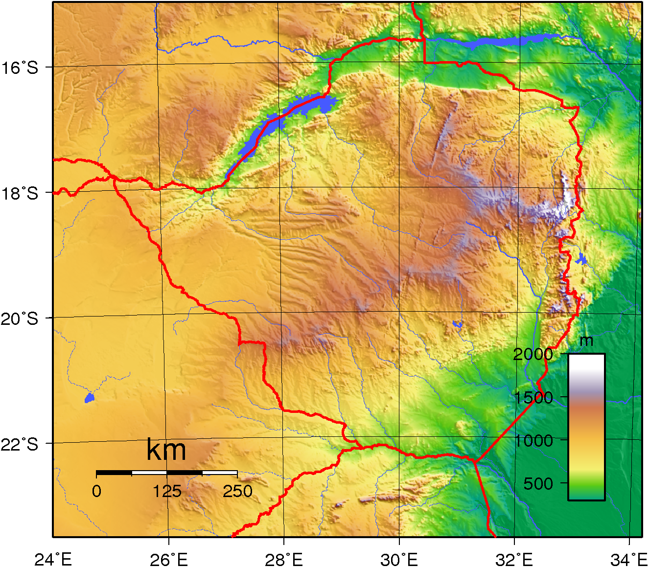 Topographic map of Zimbabwe. Created with GMT from public domain GLOBE data